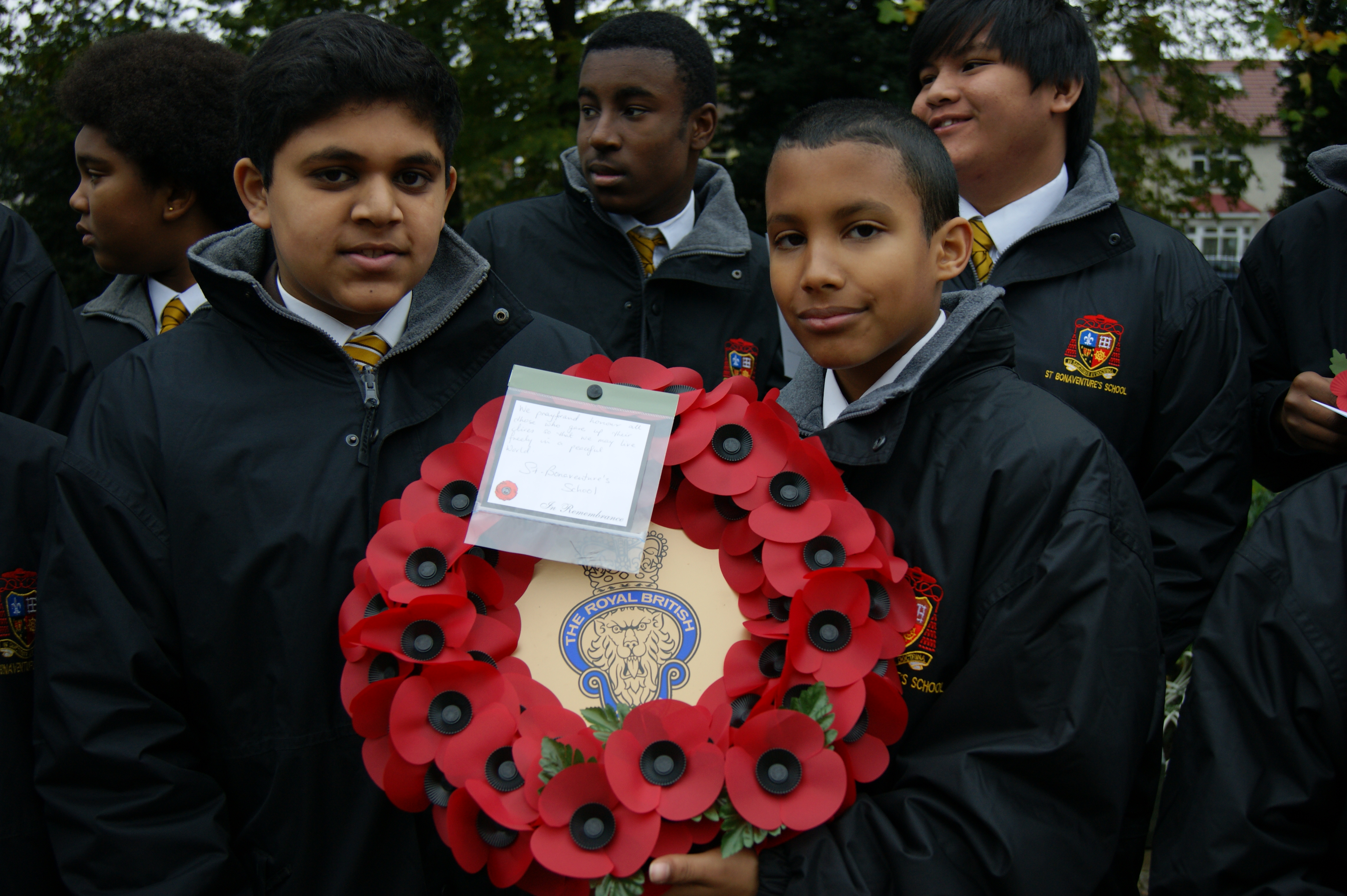 St Bon's students present a wreath of Poppies at the Cenotaph in East Ham Central Park